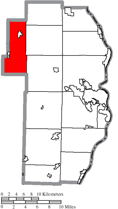 Map of the municipal and township boundaries of Jefferson County, Ohio, United States, as of the 2000 census, with the location of Springfield Township highlighted. Township borders are shown only in unincorporated areas in order to differentiate incorporated and unincorporated areas more clearly.